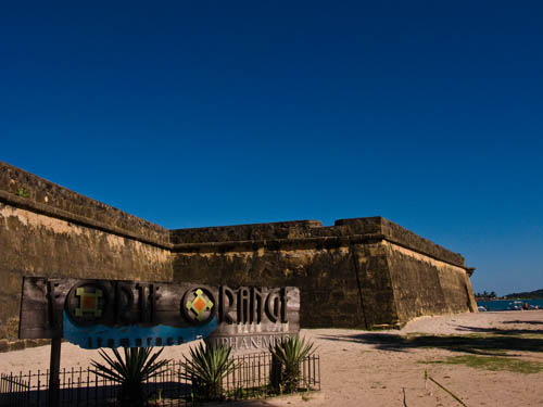 Fort Orange - Itamaracá Island, Pernambuco, Brazil